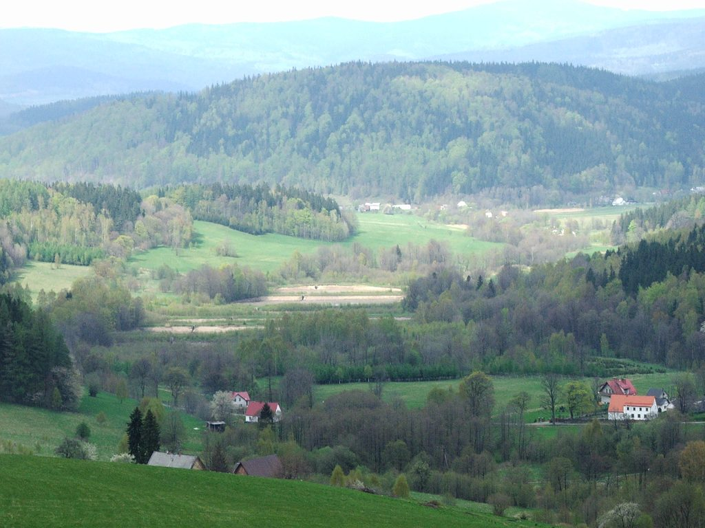 Village Młynowiec and valley of river Młynówka (Stronie Śląskie, Lower Silesia, Poland)